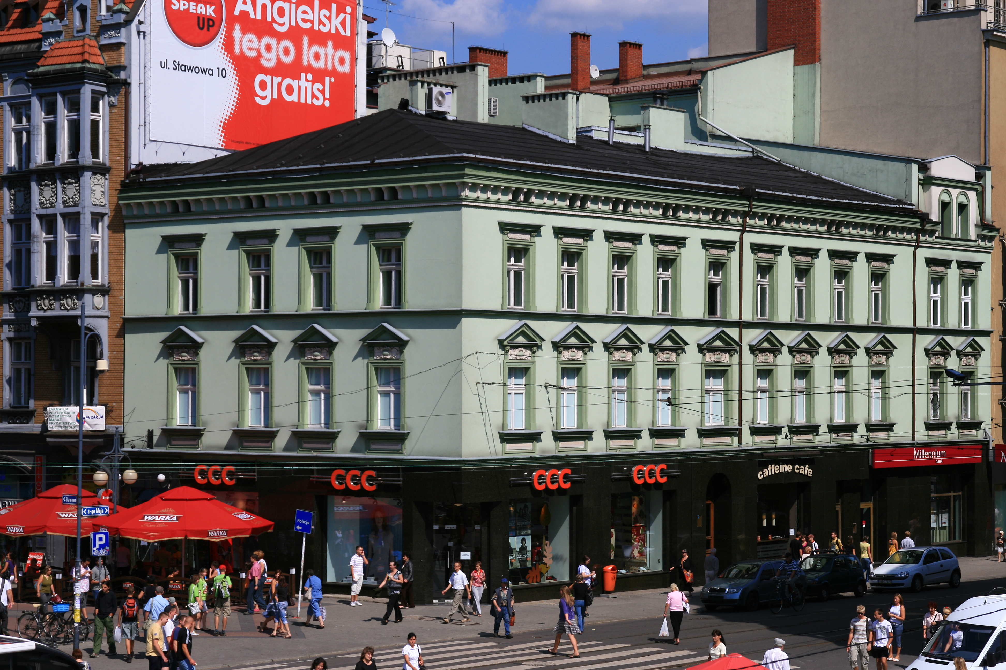 Tenement house on the 3-go Maja Street in Katowice.